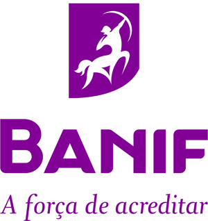 Banif - Banco Internacional do Funchal